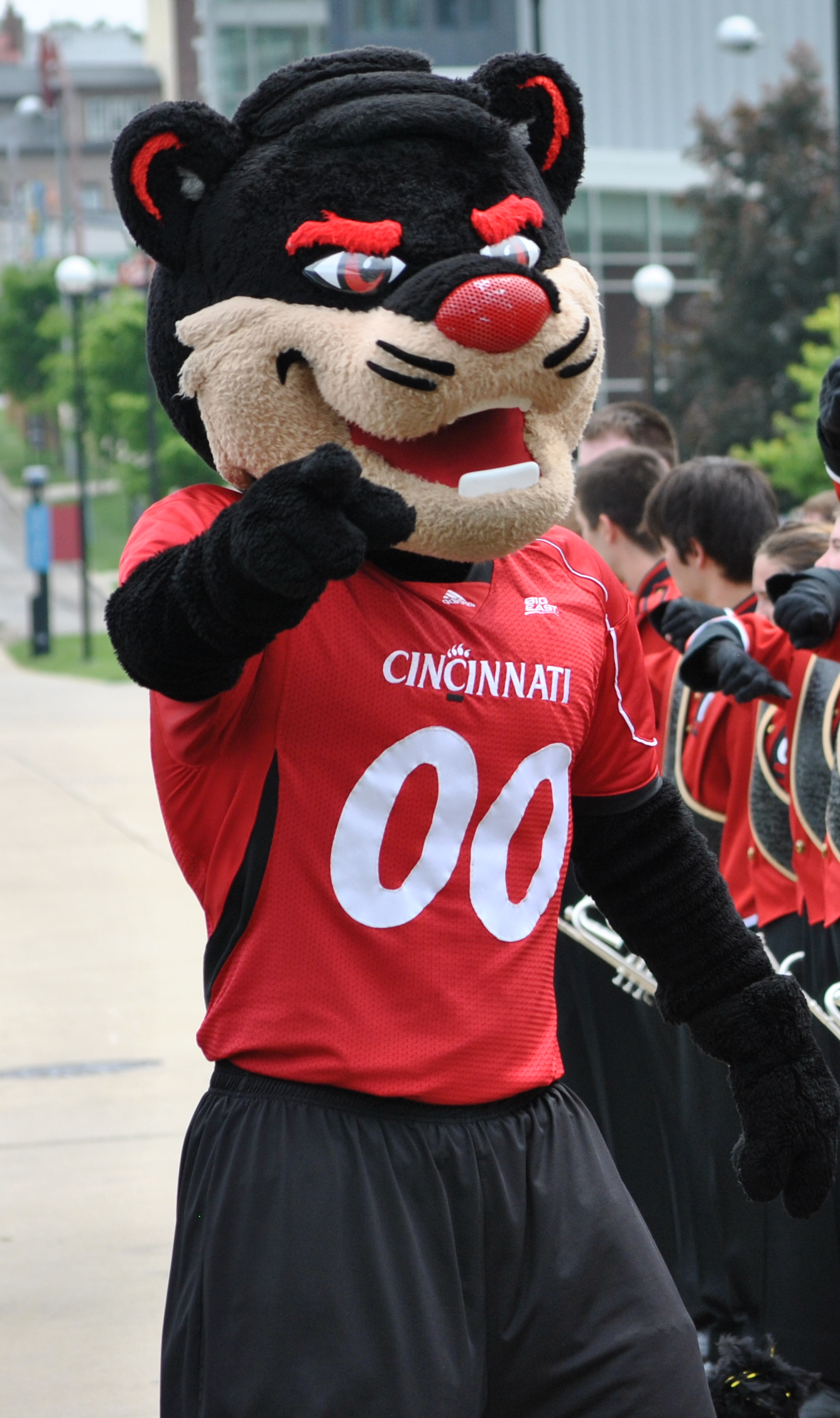 The current UC mascot, the Bearcat.